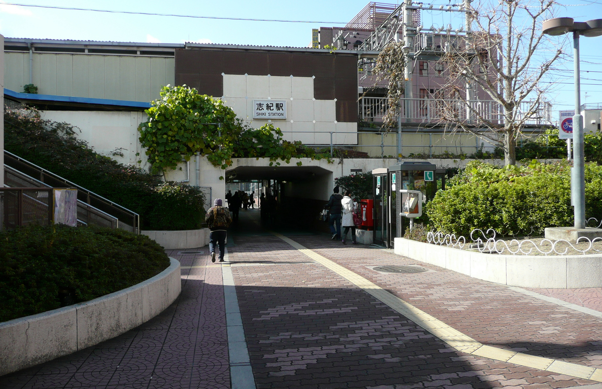 West Japan Railway,Kansai Mein Line,Shiki Station north entrance. / 関西本線志紀駅北口